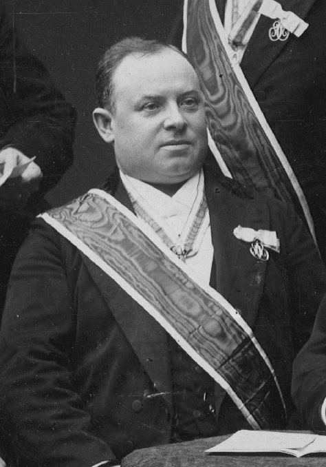 Magnus Billing (1850-1904), Swedish doctor of philosophy, jurist, teacher at the Institute of agriculture at Alnarp and well-known profile in the academic life of Lund in the late 20th century.